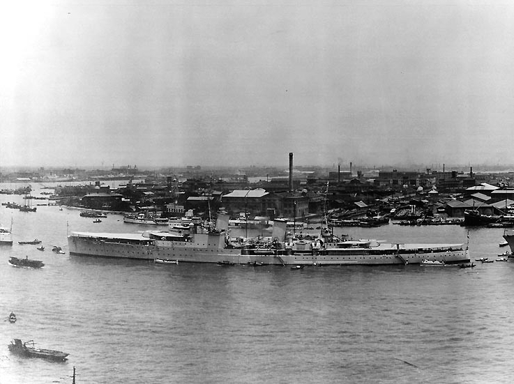 The Royal Navy light cruiser HMS Birmingham (C19) moored in the Whangpoo (Huangpu) River, Shanghai, China, in late May or early June 1939. She has large Union Jacks painted atop her awnings and turrets to assist identification from the air, and carries a Supermarine Walrus aircraft amidships. What appears to be a British Insect-class gunboat is near shore in the center background.